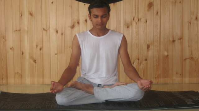 Dr.chirag patel is teaching yoga at lake side garden club, Fuxing hui yuan, Panjin, China. 中国辽宁省盘锦. Sukhasana